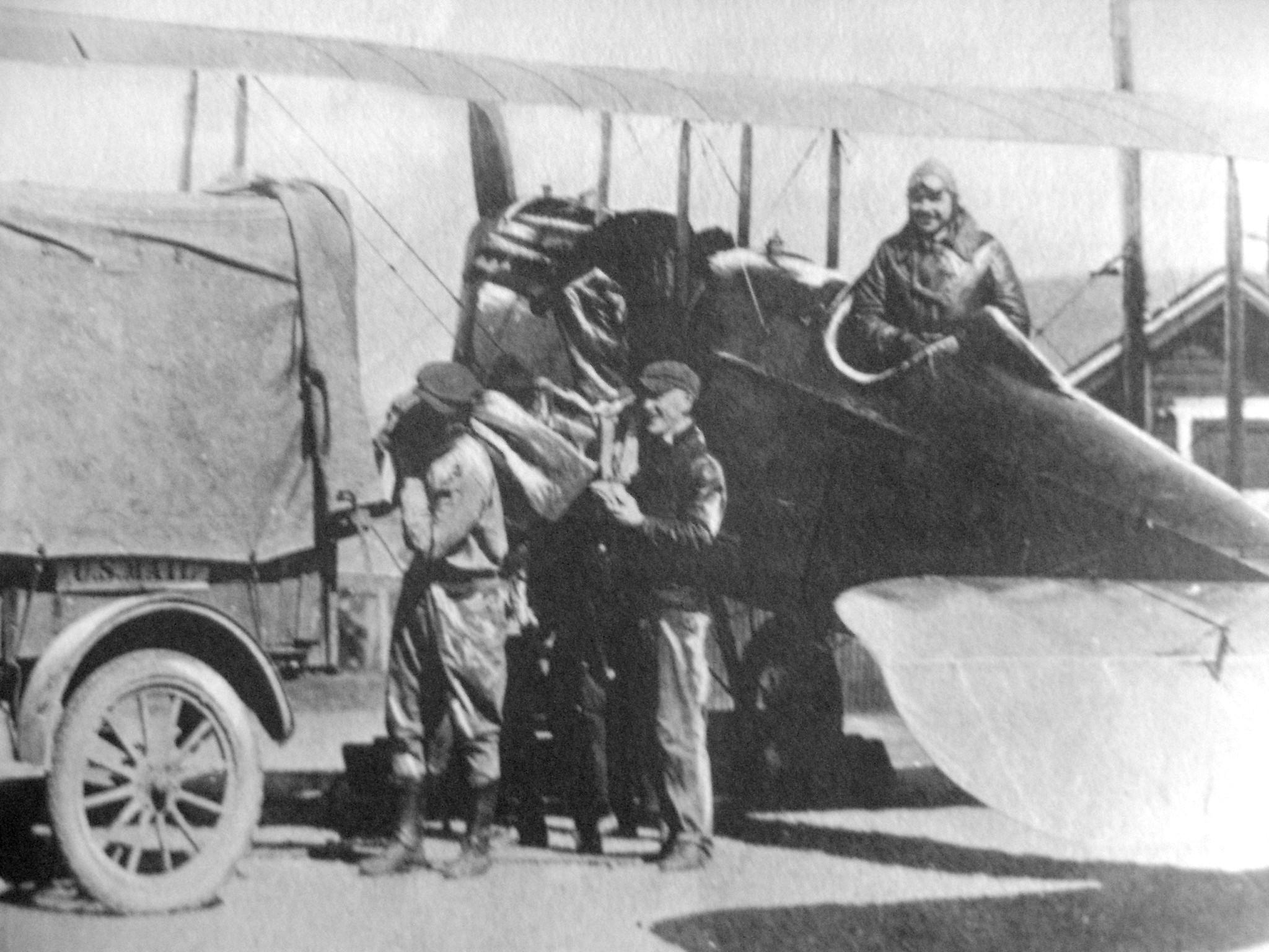 Dean Smith delivering airmail at Bellefonte Station in Pennsylvania